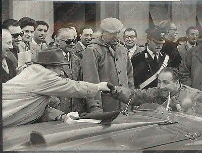 Piero Scotti after winning Coppa Toscana on Sunday 11 April 1954.[1] This was the 1953 Ferrari 375 MM Pinin Farina Spyder s/n 0360AM. Race number was #937.[2]